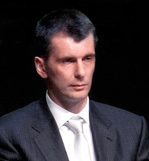 Russian billionnaire Mikhail Prokhorov